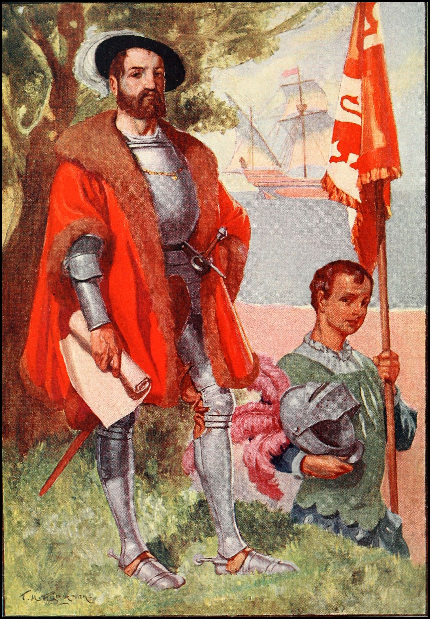 Portrait of Cortes